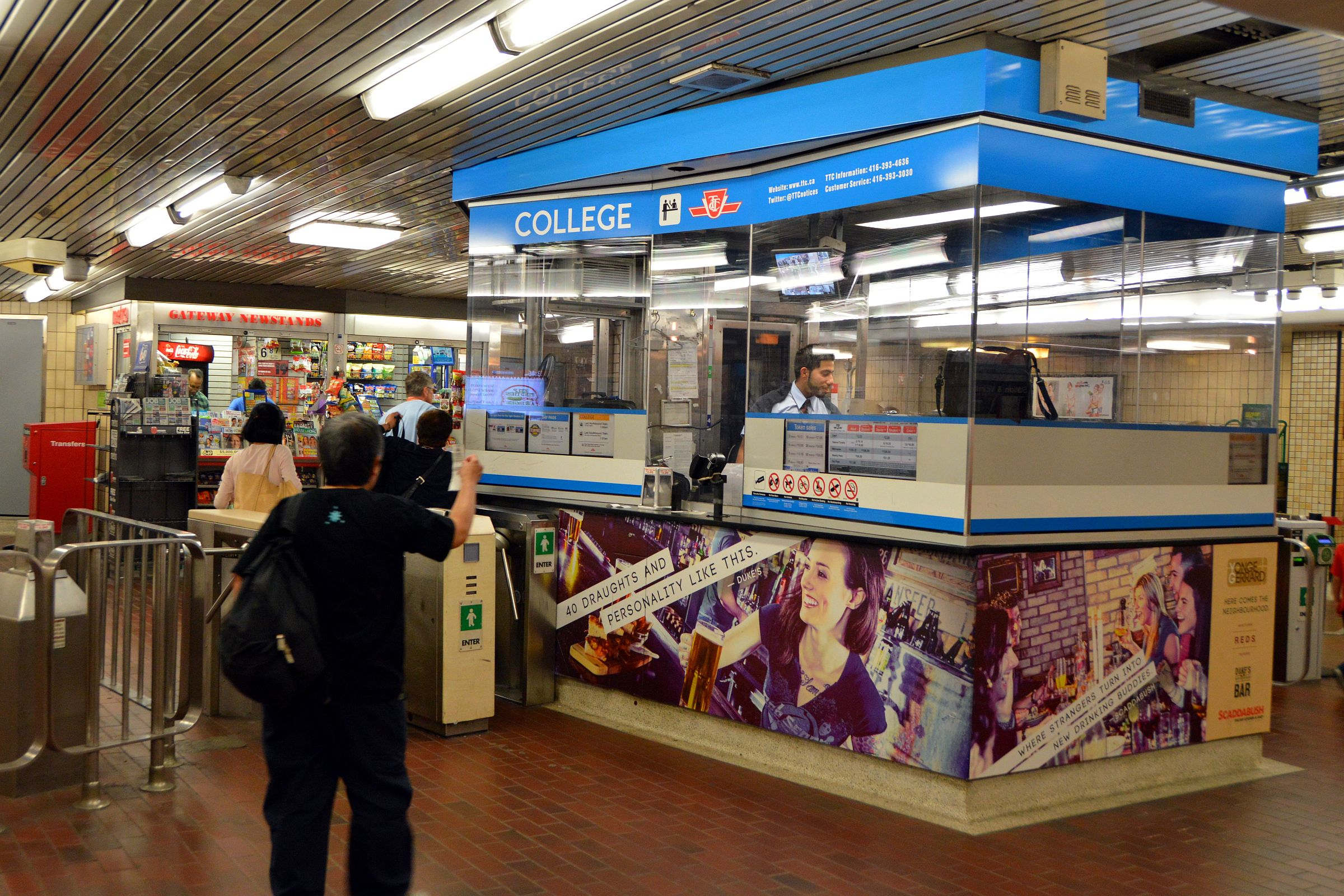 Collector's booth and turnstiles at College TTC subway station in Toronto